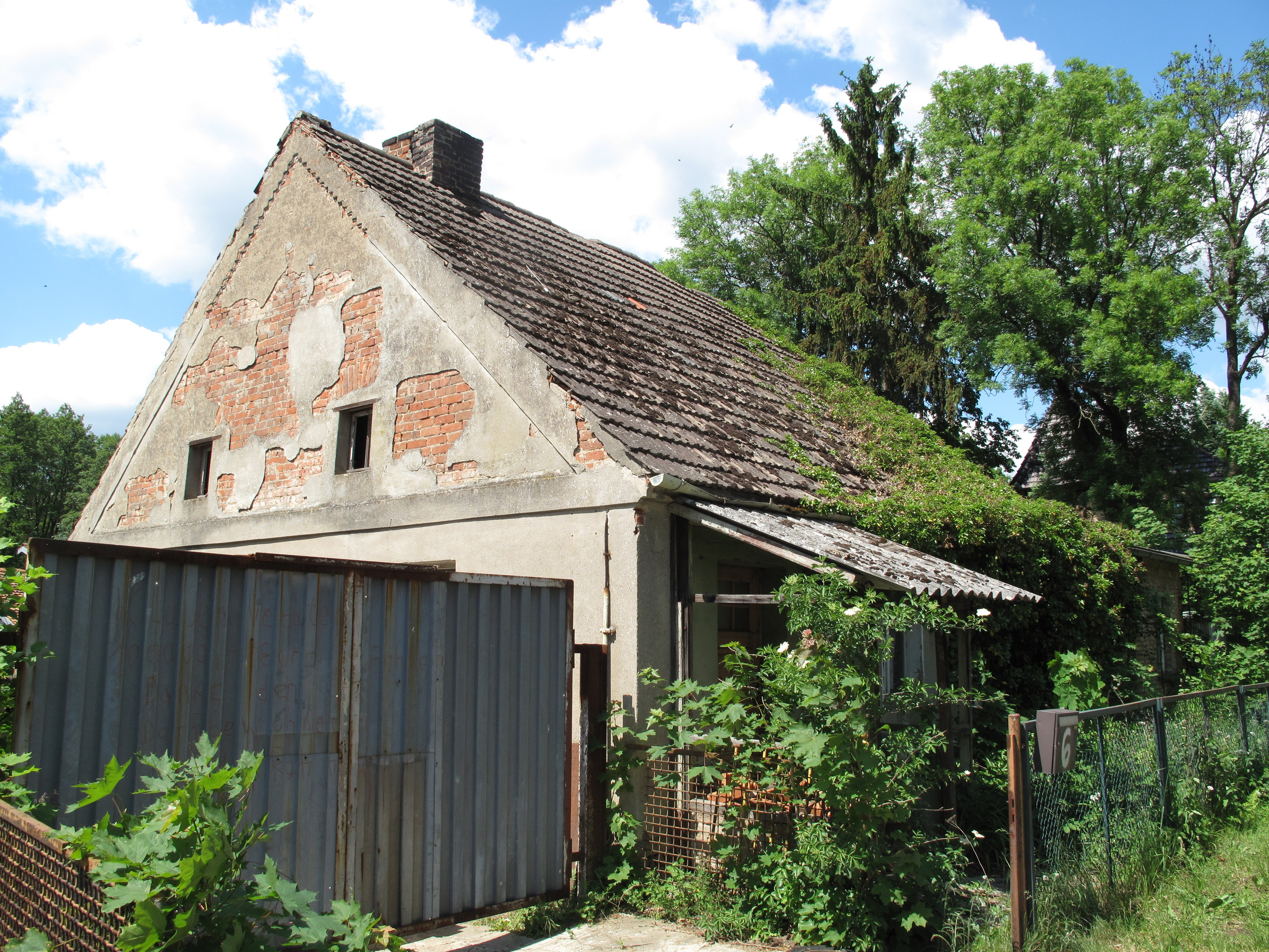 Building in Kienbaum. The village Kienbaum is a part of the municipality Grünheide, District Oder-Spree, Brandenburg, Germany. The village had in 2011 approximately 300 inhabitants.